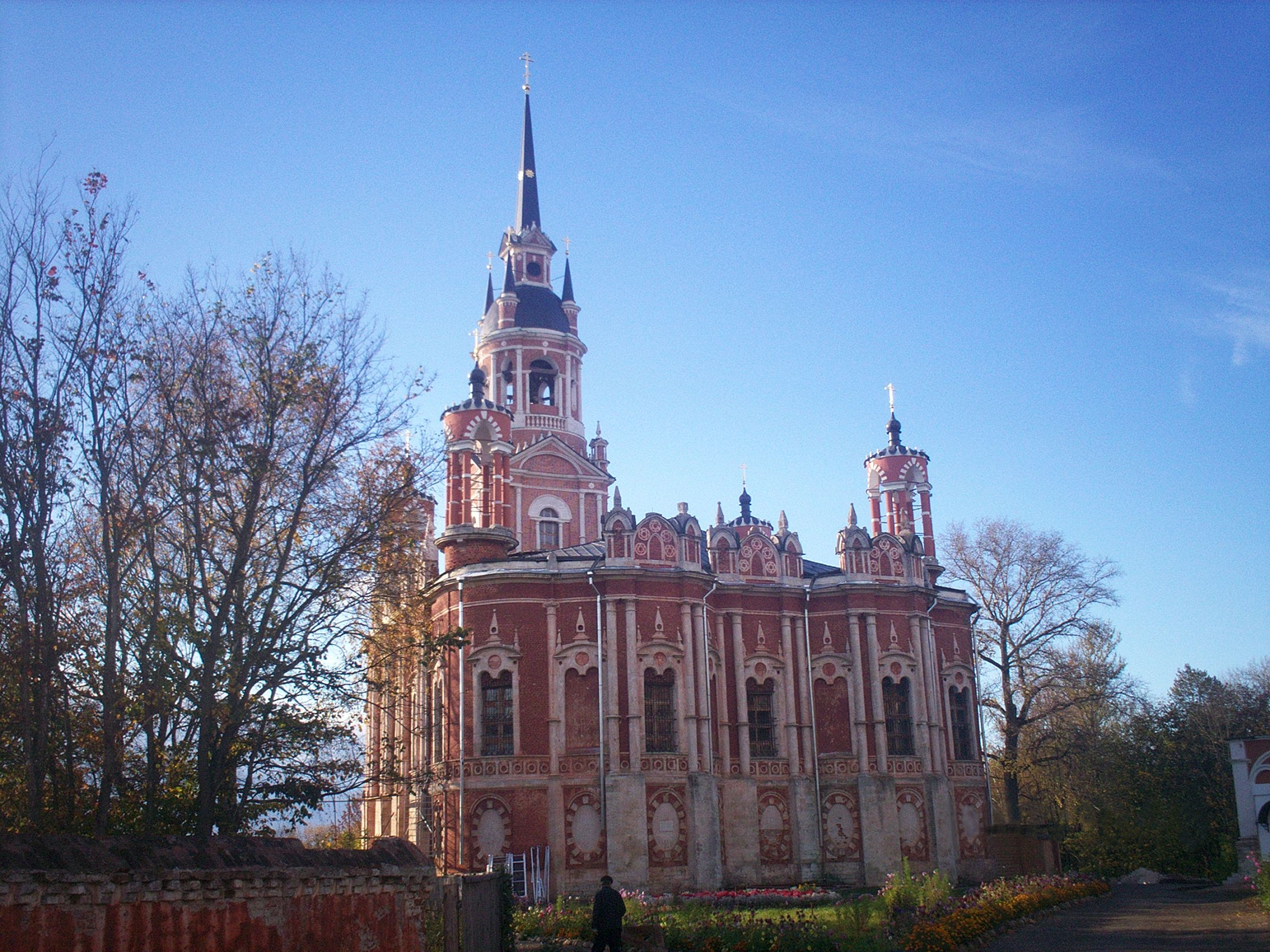 Nikolskiy Church (Mozhaysk)